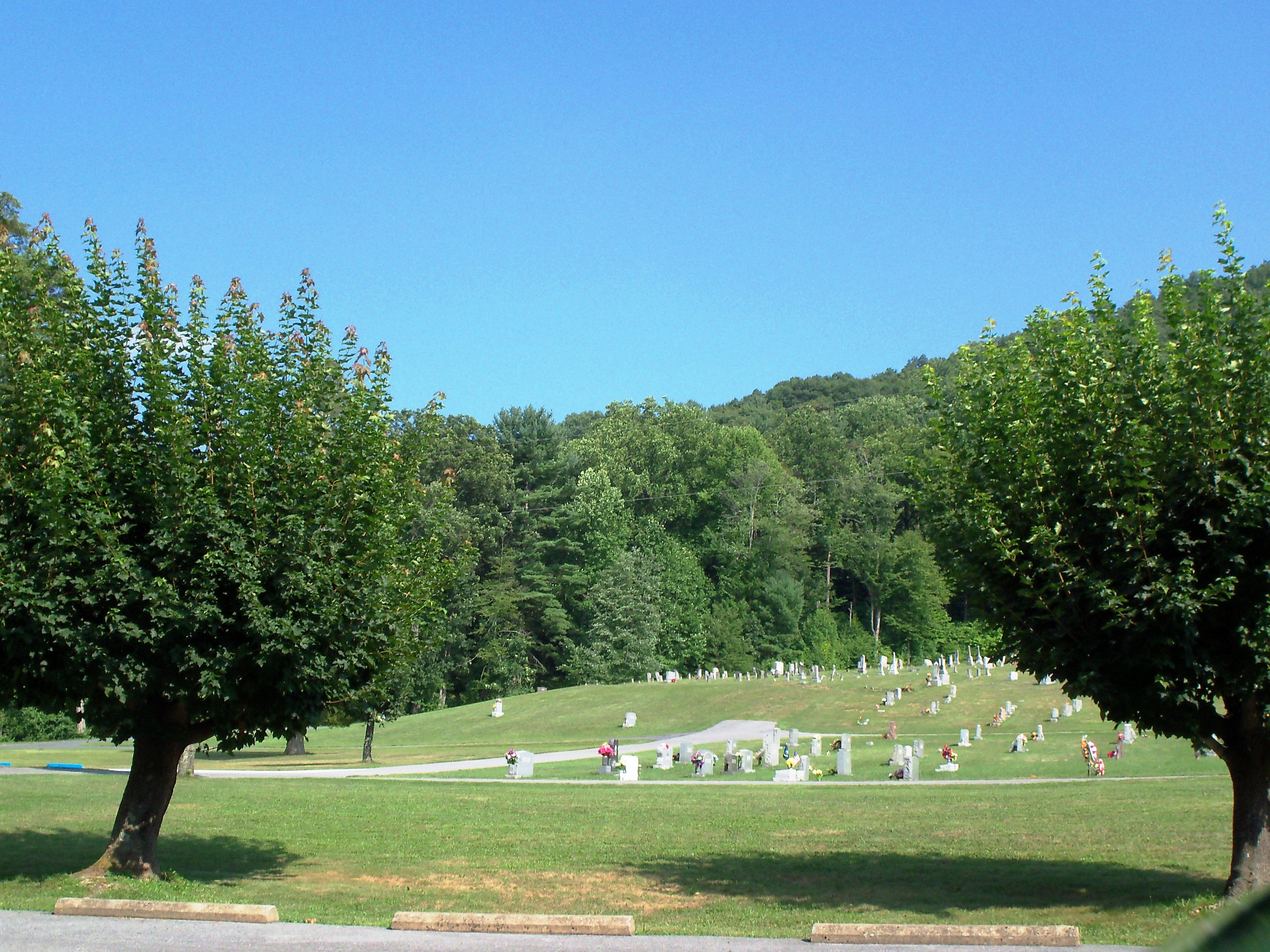 2, East Luray, VA 22835, USA